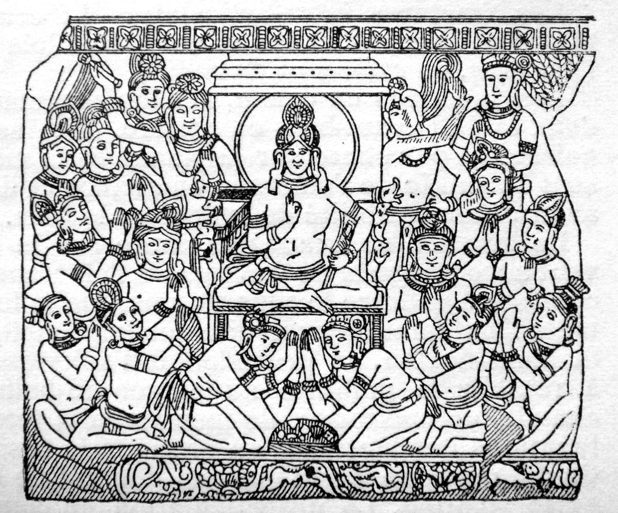 Sudhodanna And His Court